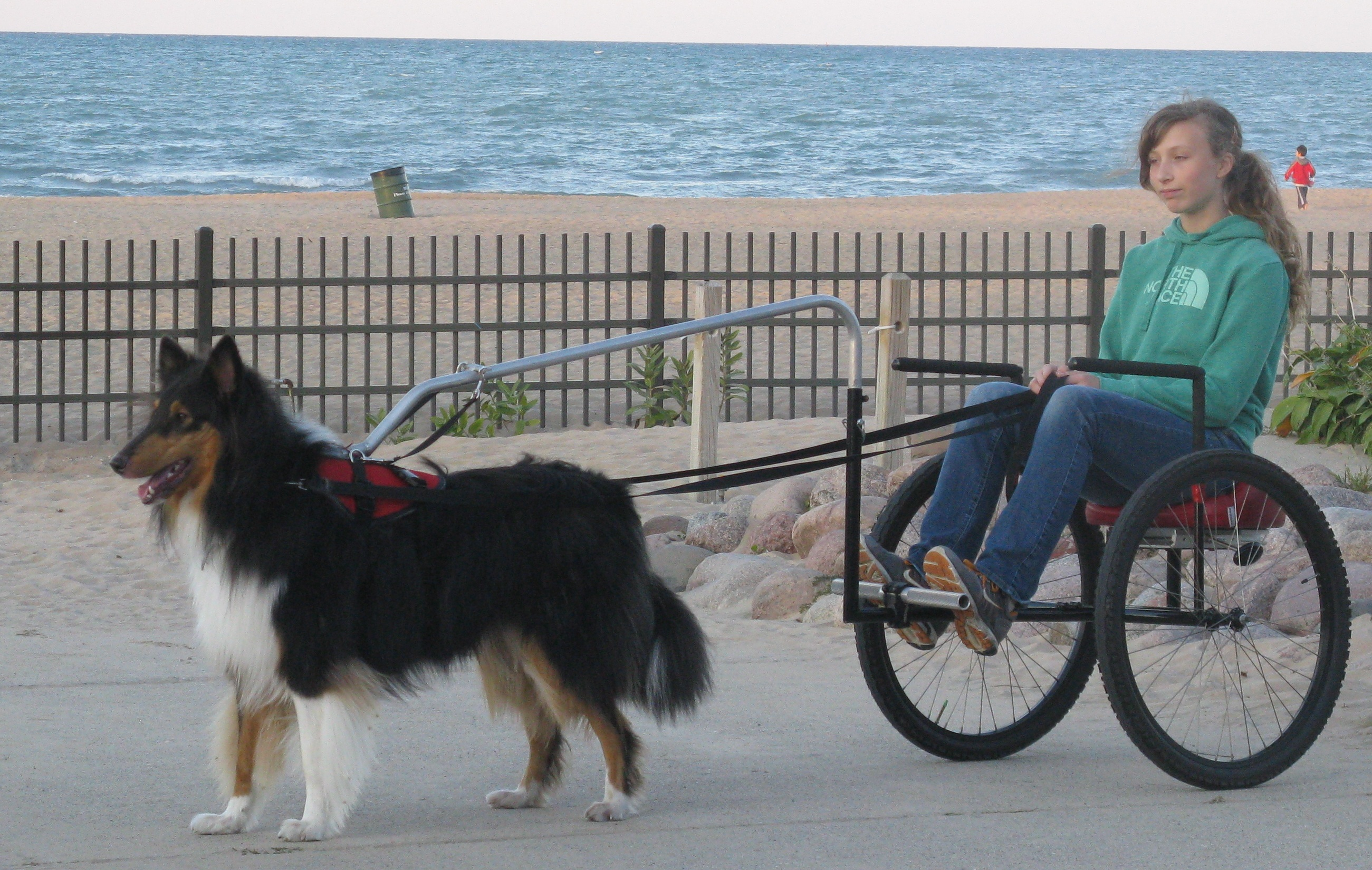 A young handler driving her Collie.